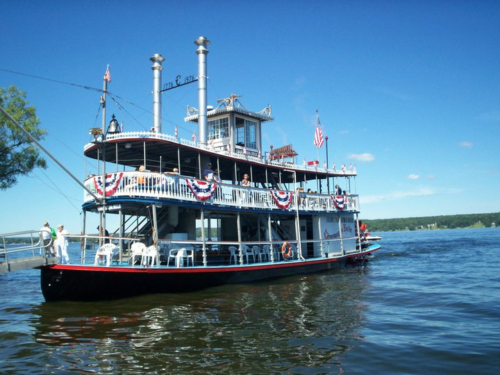 Steamer Chautauqua Belle leaving the landing